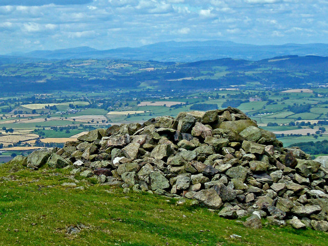 Cairn at summit of Corndon Hill Extensive views towards the Berwyns